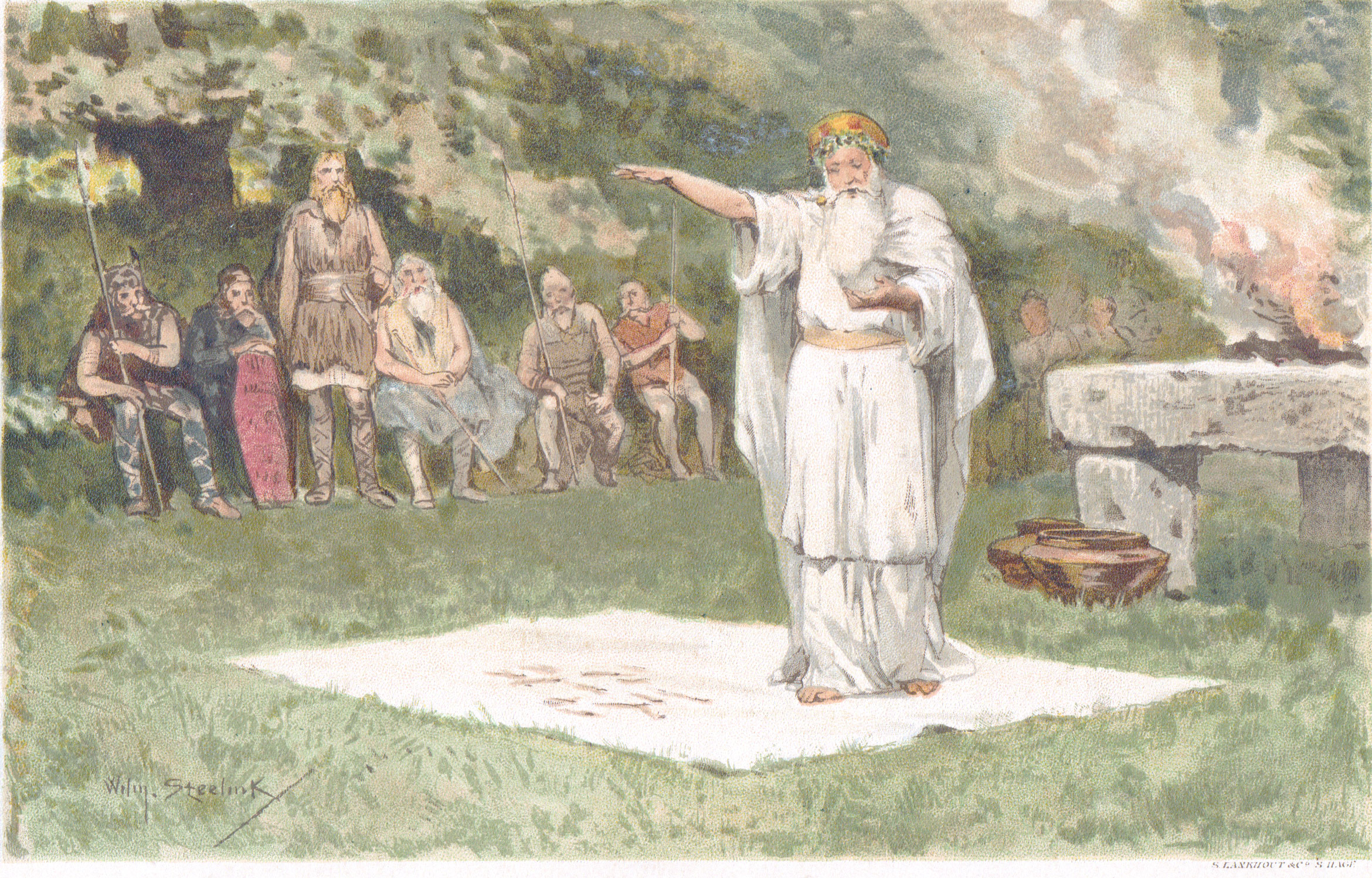 Council meeting of the Germanic people.